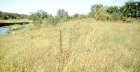 The Indian Village Site (Witrock Area), a National Historic Landmark in O'Brien County, Iowa, United States.